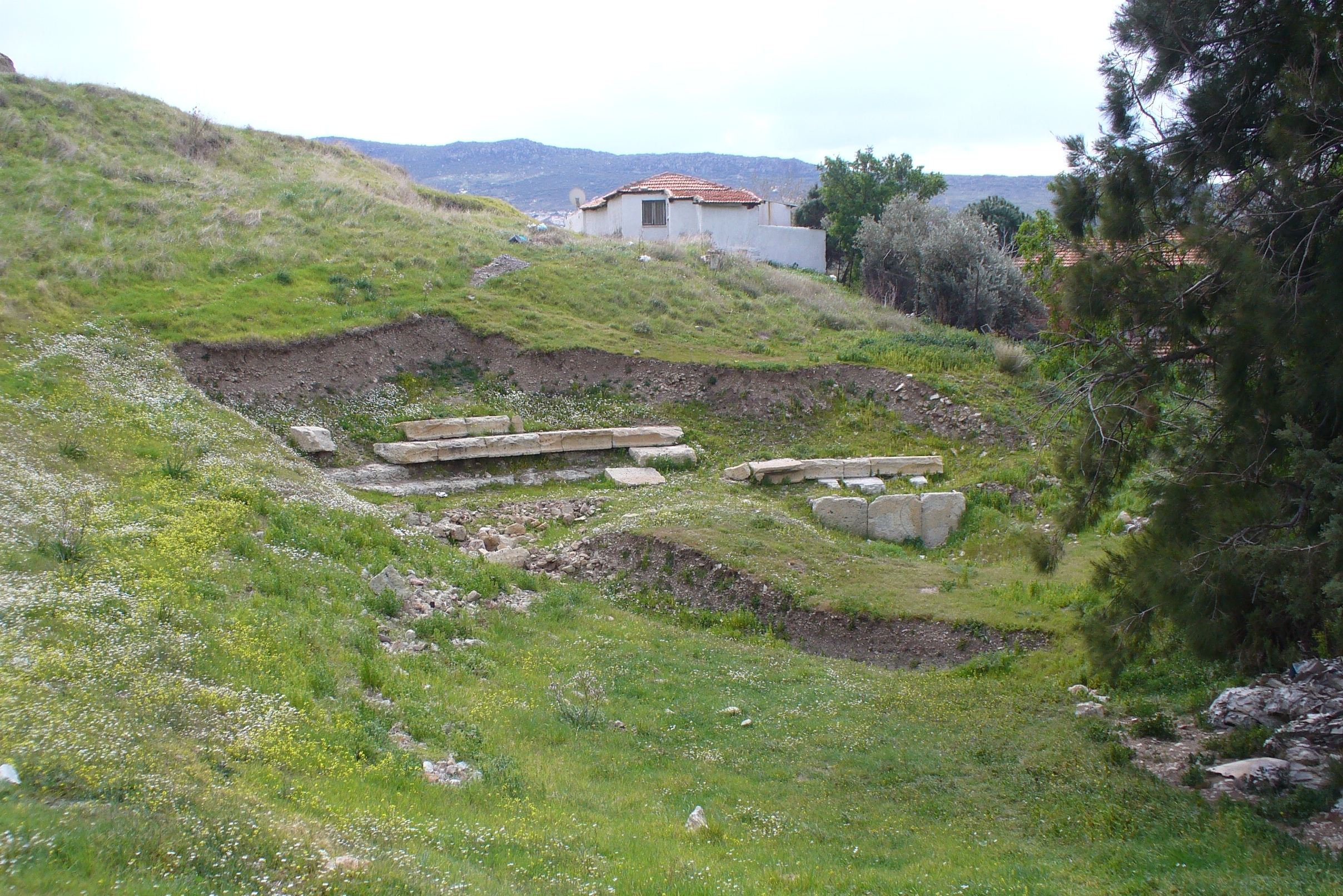 The remains of the ancient theatre in Phocaea, now Foça in Aegean Turkey. Though small, this is supposed to have been one of the oldest theatres in Anatolia.